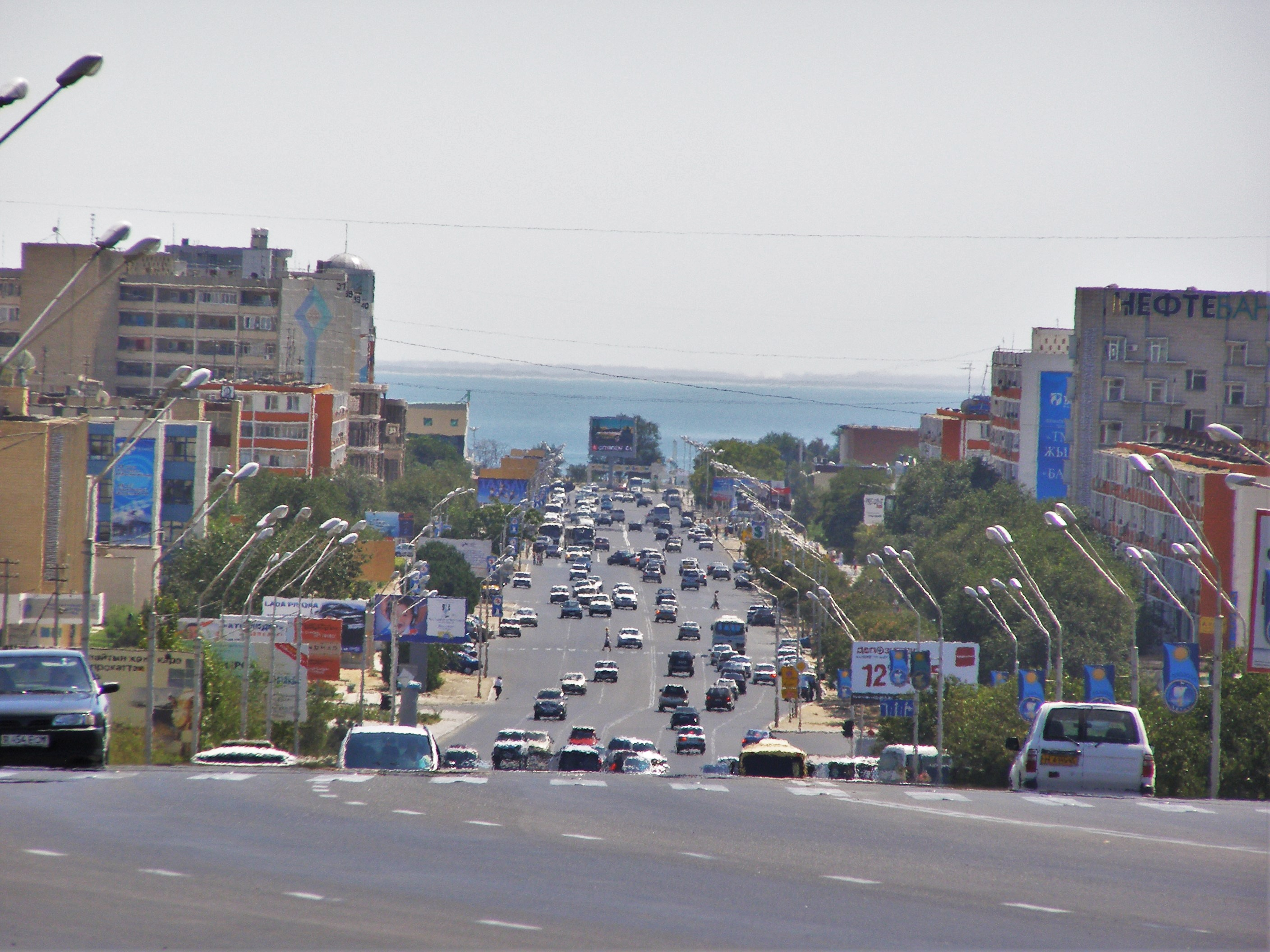 Main street in Aktau, Mangystauskaja oblast, Khazakistan